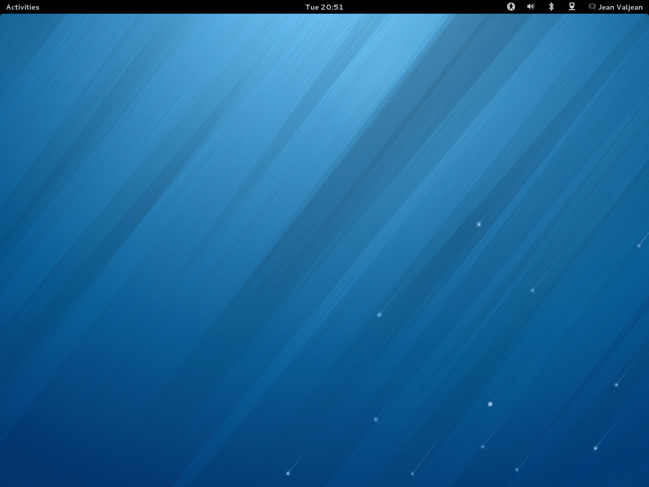 Screenshot of default Fedora 18 desktop using GNOME environment.